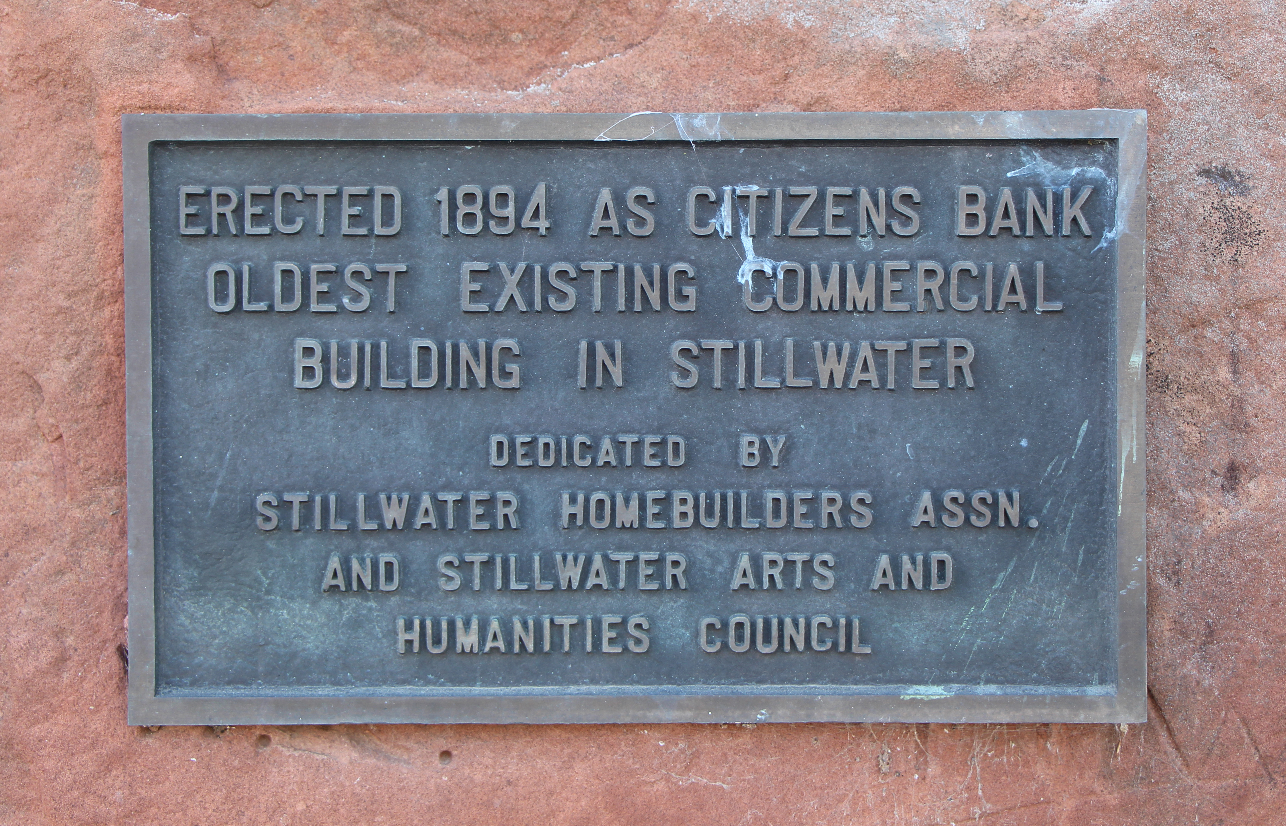 Citizens Bank Building, 107 E. 9th St. Stillwater